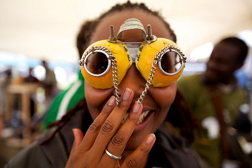 Maker Faire Africa in Nairobi-Nairobi Hill,Kenya